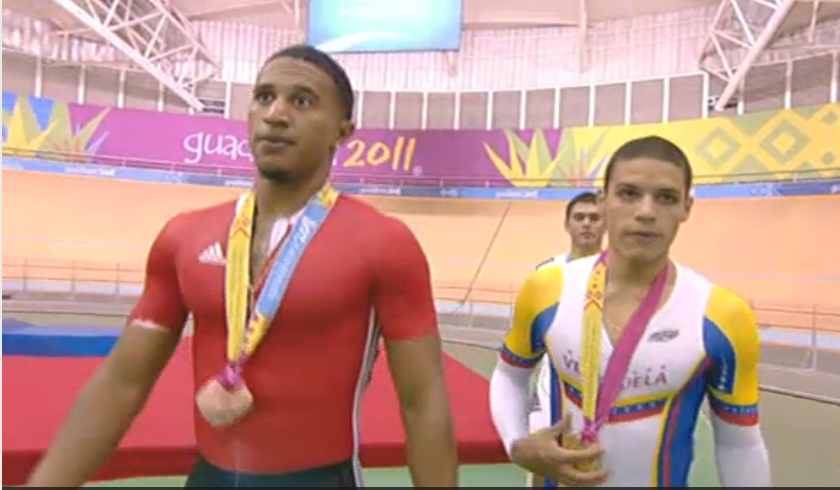 Njisane Philip (left), cyclist from Trinidad and Tobago at the Panamerican Games 2011, Hersony Canelon (right)